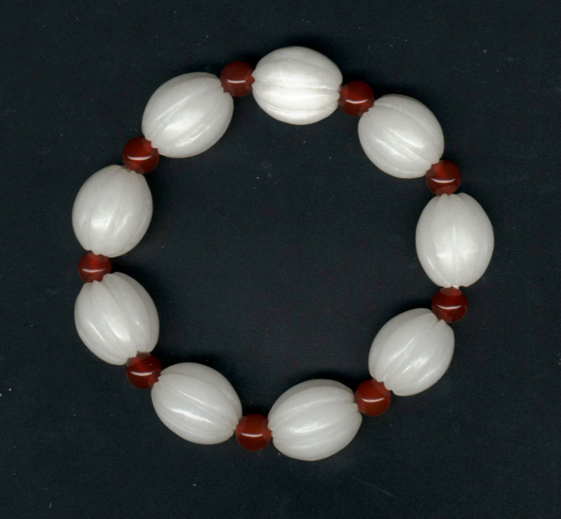 Khotan white jade bracelet和阗玉手镯